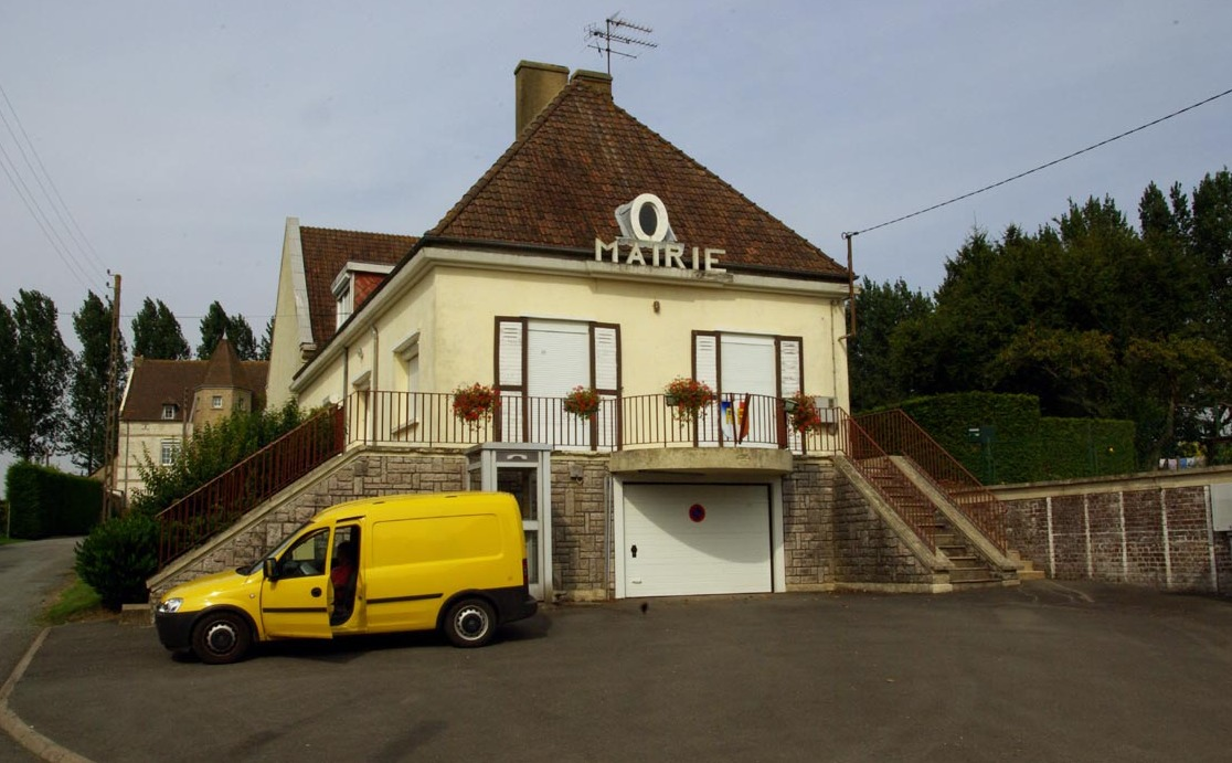 Incourt, the Mayor's Office